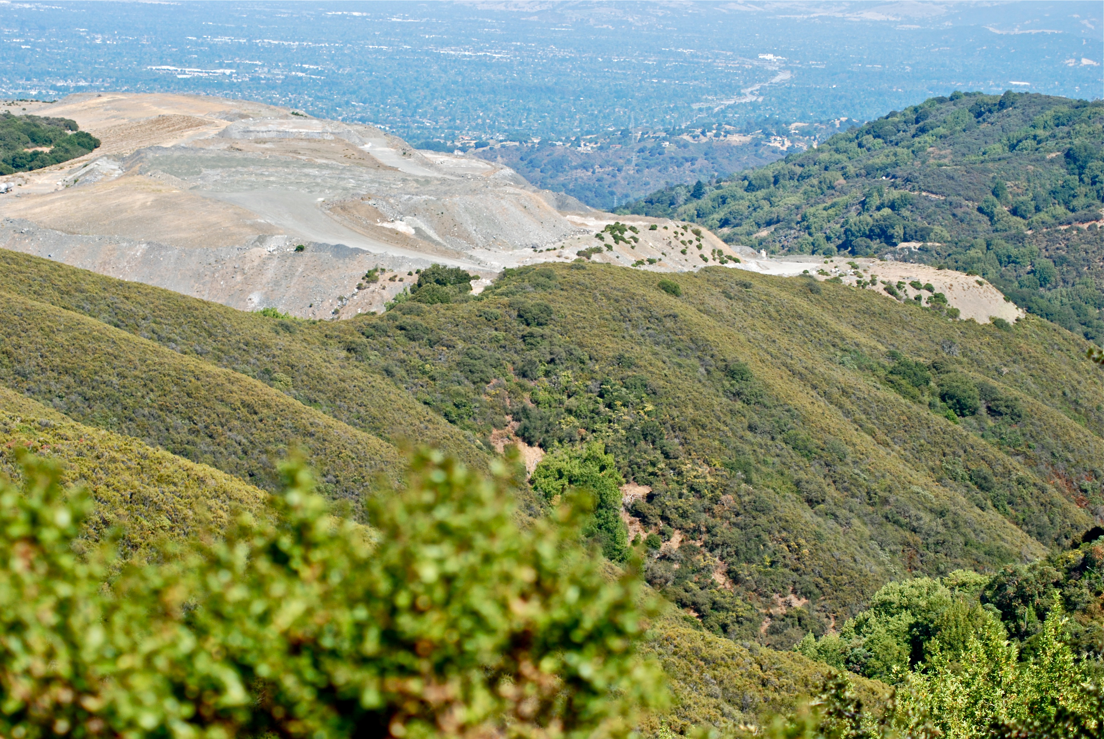 Quarry waste material piled over natural ridge "Permanente Ridge" that borders the Permanente Quarry and Rancho San Antonio County Park, viewed from Quarry Trail and Black Mountain Trail intersection.